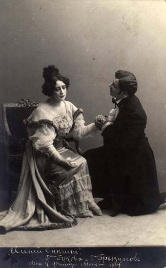 Margarita Gukova and I. Gryzunov in "Eugene Onegin". Postcard. Photo by Karl Fischer. 1914